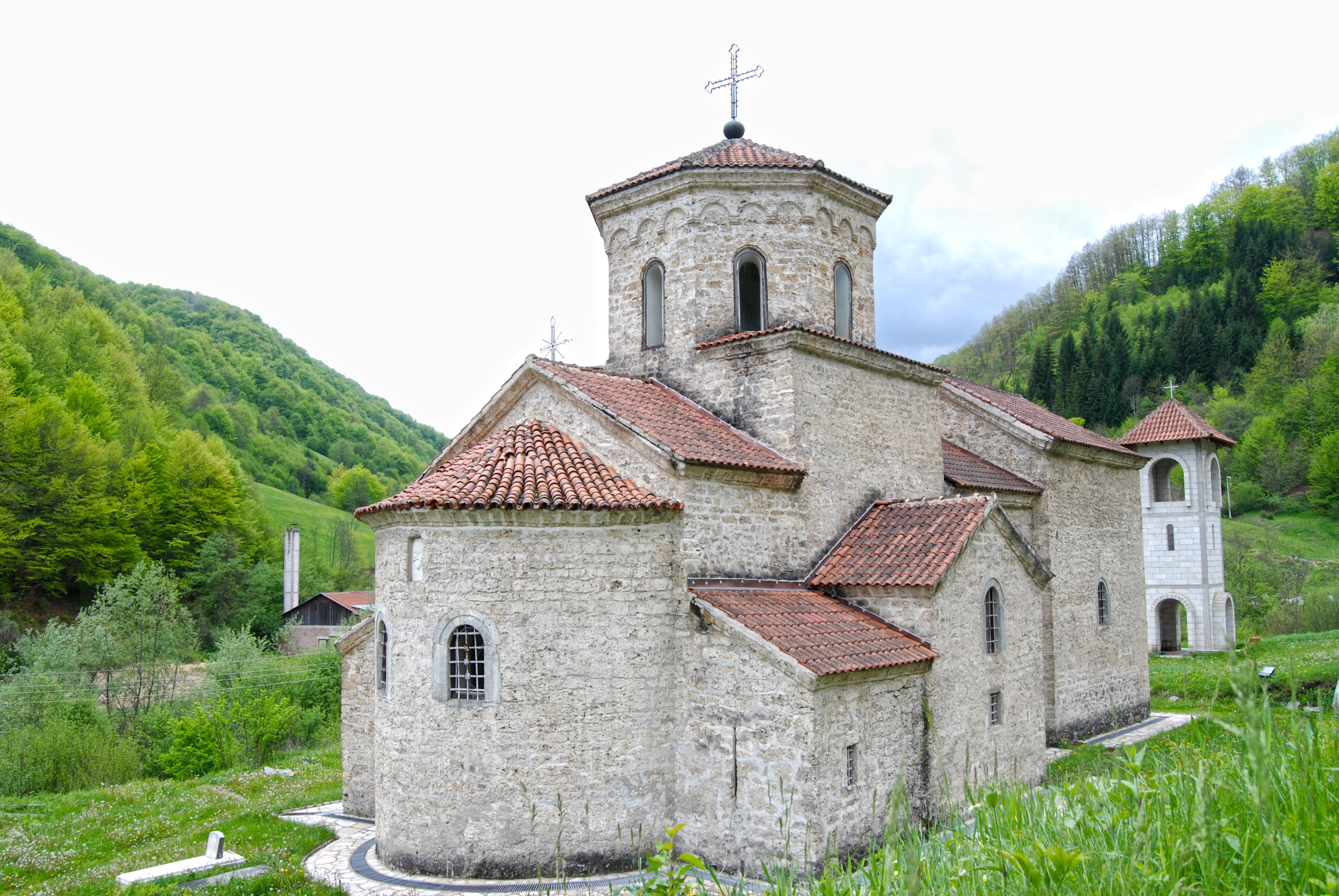 Pridvorica Monastery located in the vicinity of Ivanjica, in Pridvorica, SerbiaСрпски (ћирилица): Манастир Придворица налази се уу околини Ивањице, у месту Придворица, Србија.